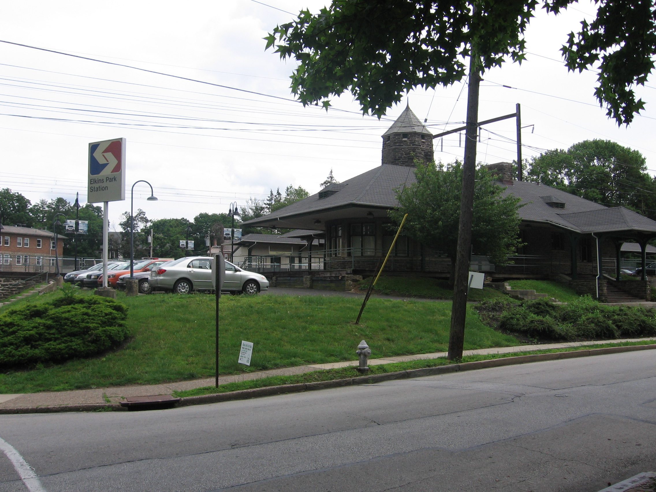 Elkins Park SEPTA Regional Rail Station